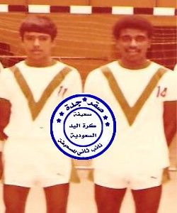 Mohammed Johar in 1987 in Jeddah, Saudi Arabia